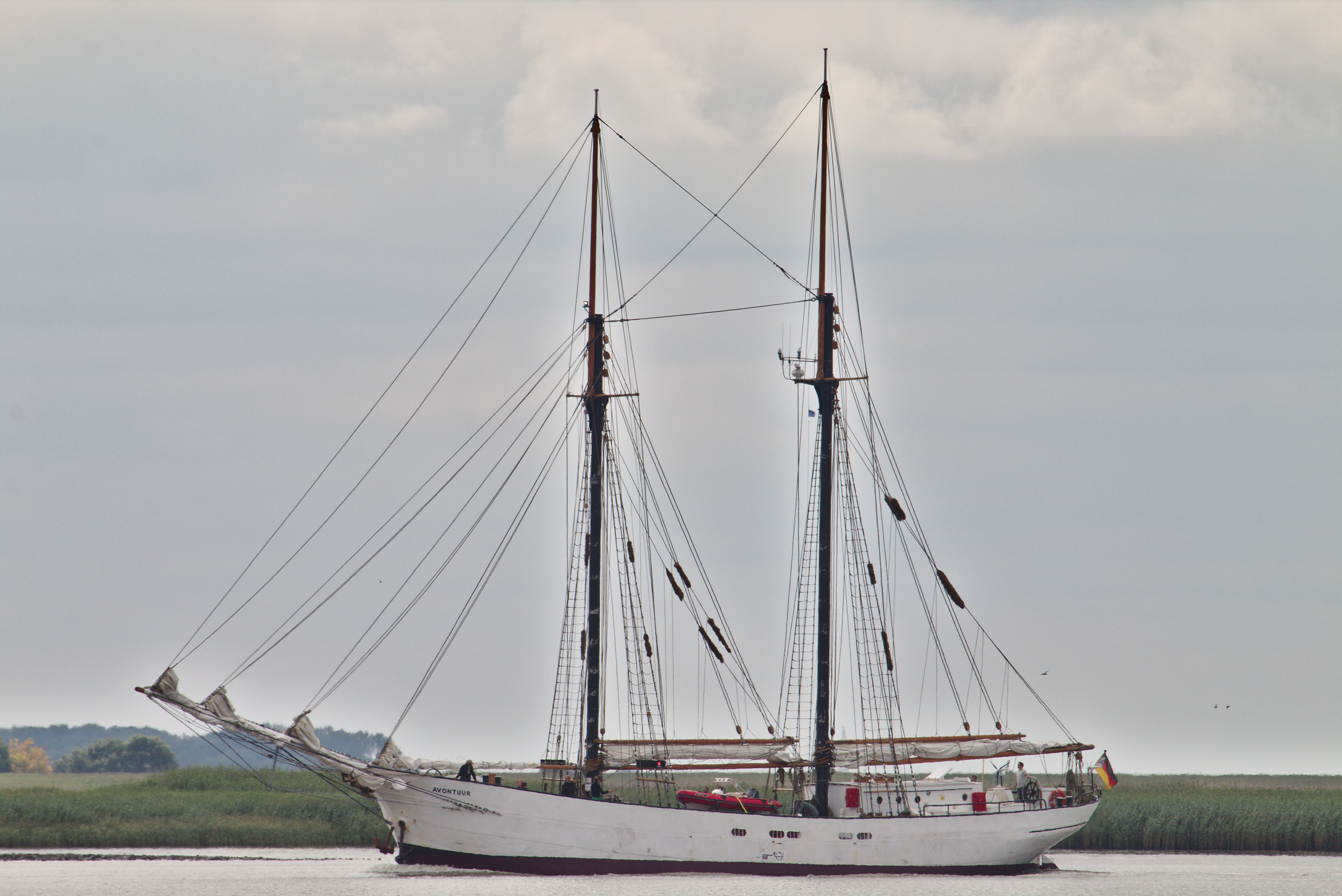 The gaff schooner "Avontuur" (built in 1920) en route from Brake (Lower Saxony, Germany) to La Rochelle (New Aquitaine, France) approaching Nordenham harbor, seen from the Union Pier at Nordenham (Lower Saxony, Germany).